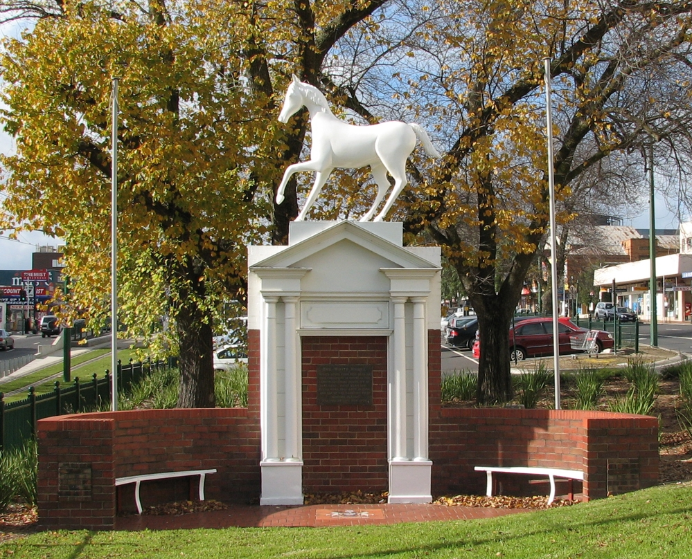 White Horse, Whitehorse Road, Box Hill, Victoria, Australia